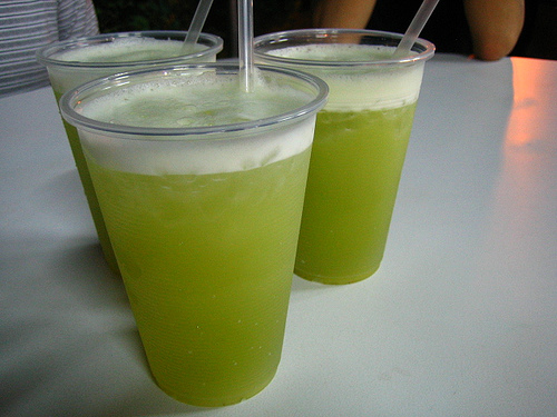 Sugarcane juice in a cupTiếng Việt: Nước mía